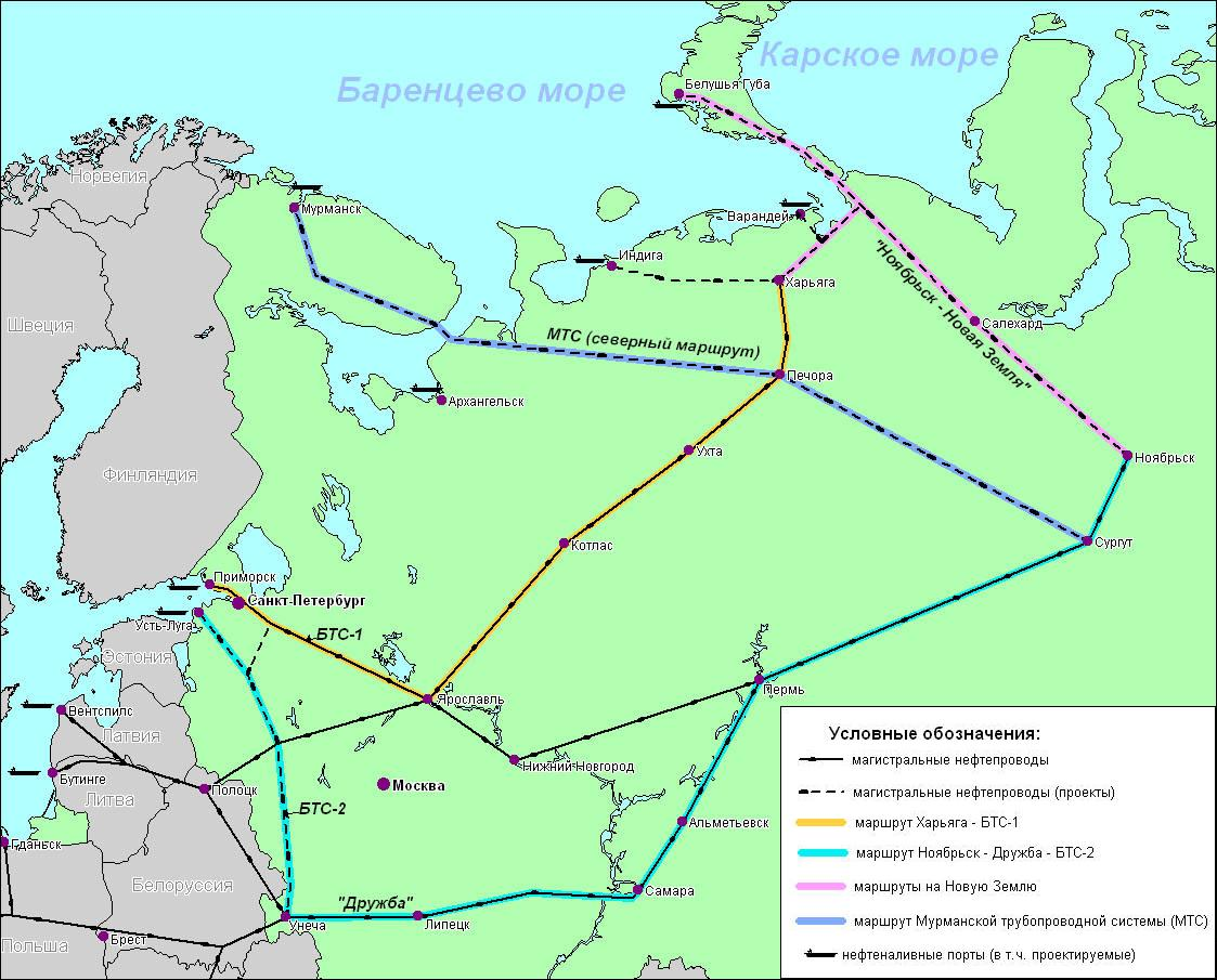 Map of oil pipelines (projects)